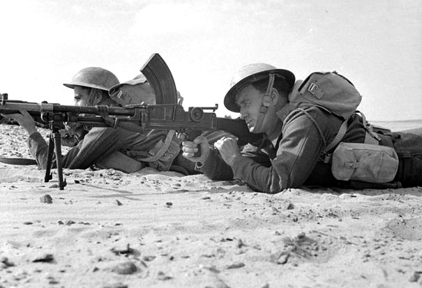 Commonwealth Forces in North Africa 1940-1943 Rhodesian troops of the 60th King's Royal Rifles fire a Bren gun during a training exercise, 12 May 1942.